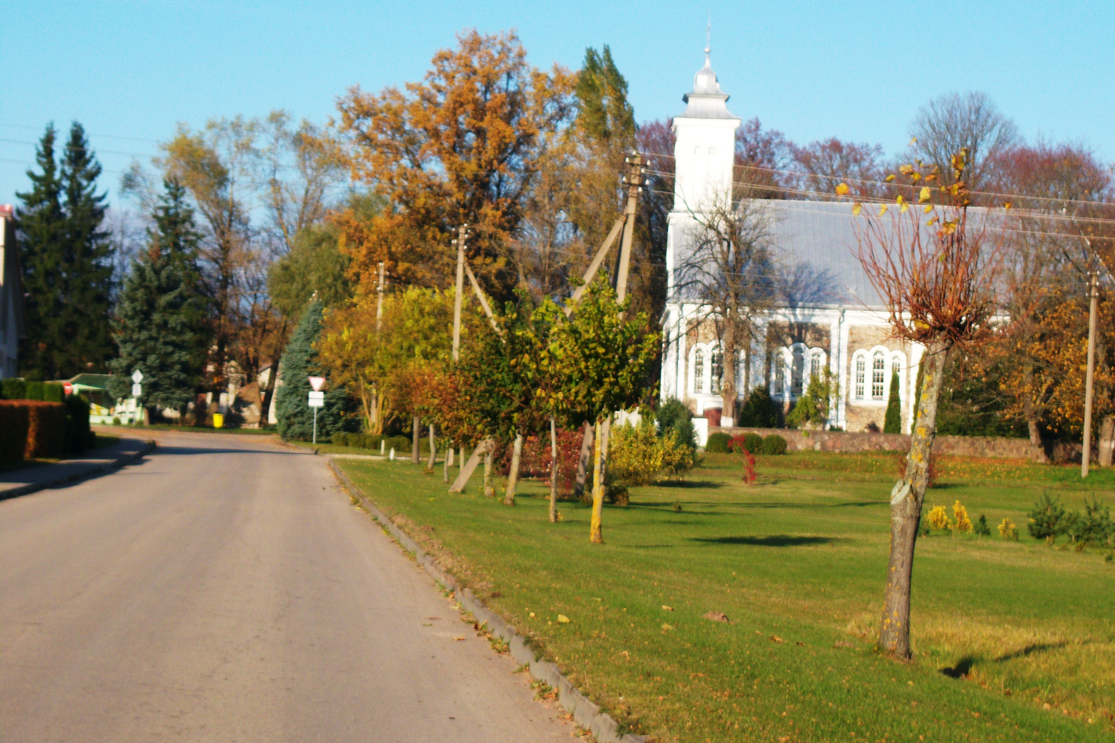 Aleksandrija Church, Skuodas District. Lithuania